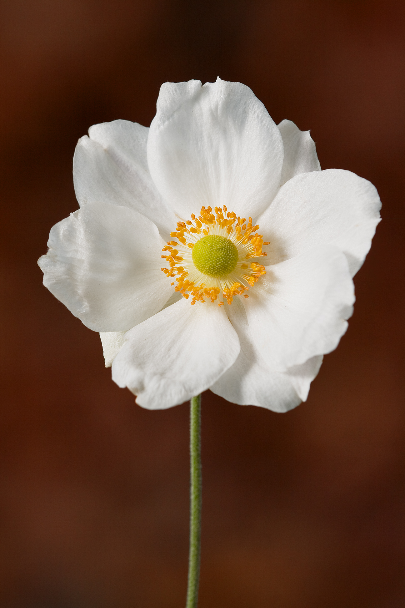 Japanese Anenome (Anemone hupehensis var. japonica) Camera data Camera Canon EOS 400D Lens Tamron EF 180mm f3.5 1:1 Macro Flash Umbrella Left Focal length 180 mm Aperture f/5.6 Exposure time 1/15 s Sensivity ISO 100